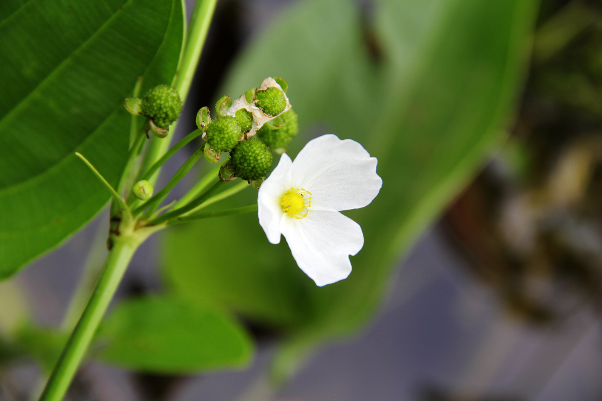 I am an acquatic plant with submergent leaves, 40 to 60 cm long, attached by petioles flatly triangular, my leaf blades being lanceolate or narrowly oval. I am widely cultivated for and used in ponds and artificial aquatic habitats.